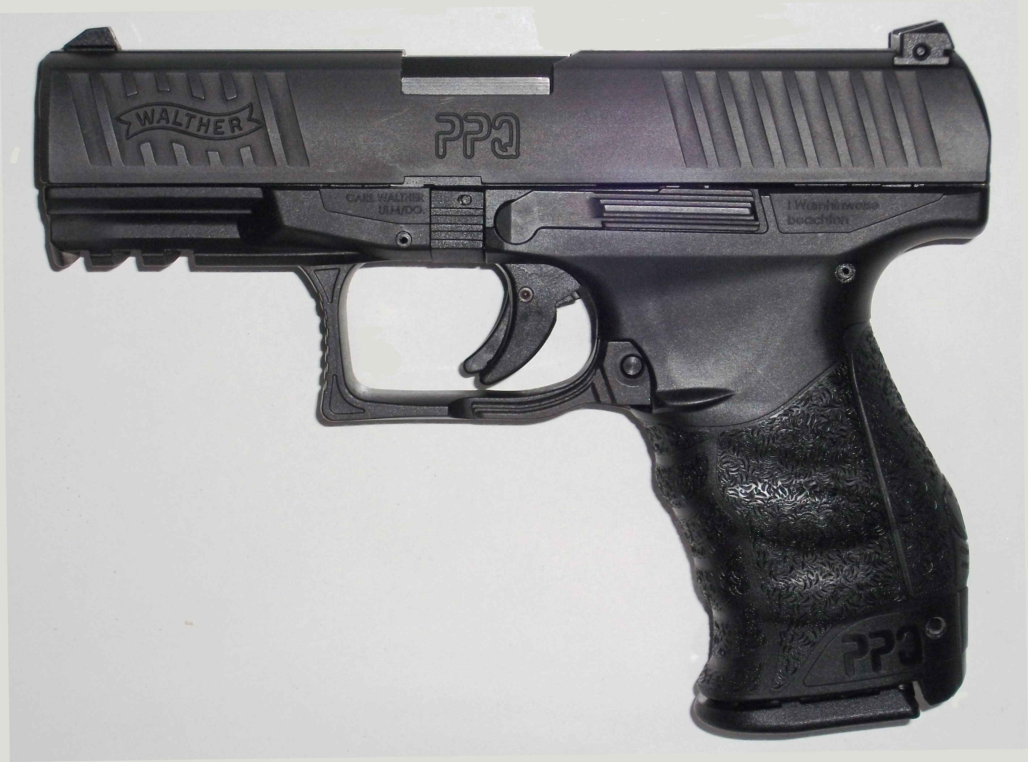 Walther PPQ firearm